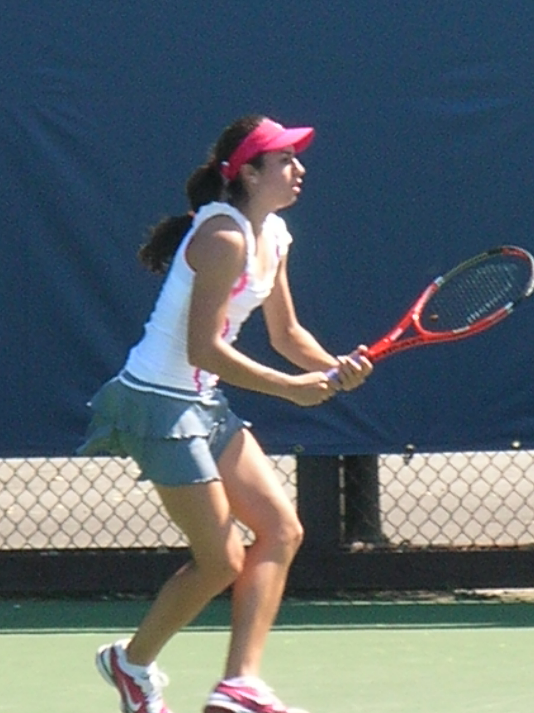 Christina McHale in the second round of qualifying at the Bank of the West Classic at Stanford. She defeated Misaki Doi 7-6 (2), 7-6 (1).